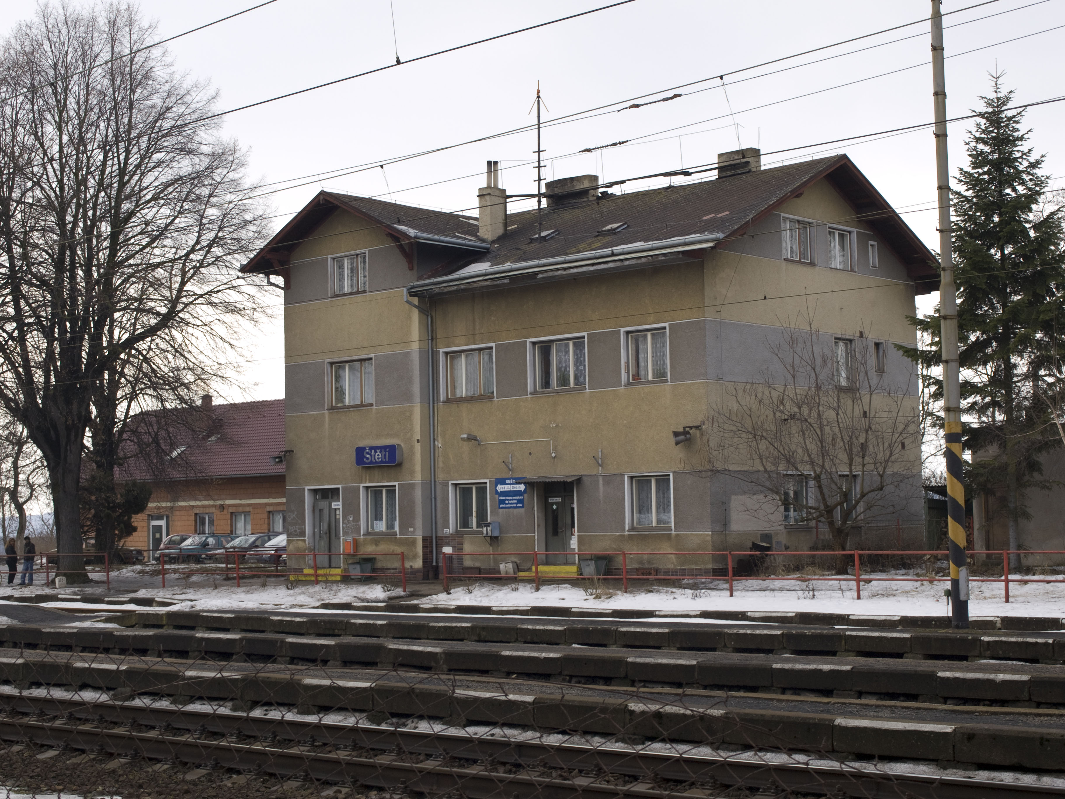 Train staion, Štětí, Ústí nad Labem Region